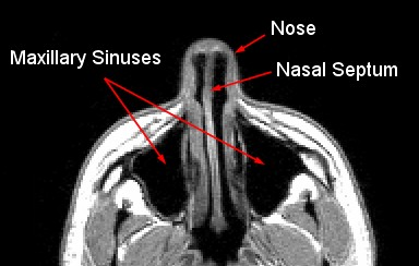 Labeled MRI image from an axial slice through human head. The image shows the nose, maxillary sinuses and nasal septum